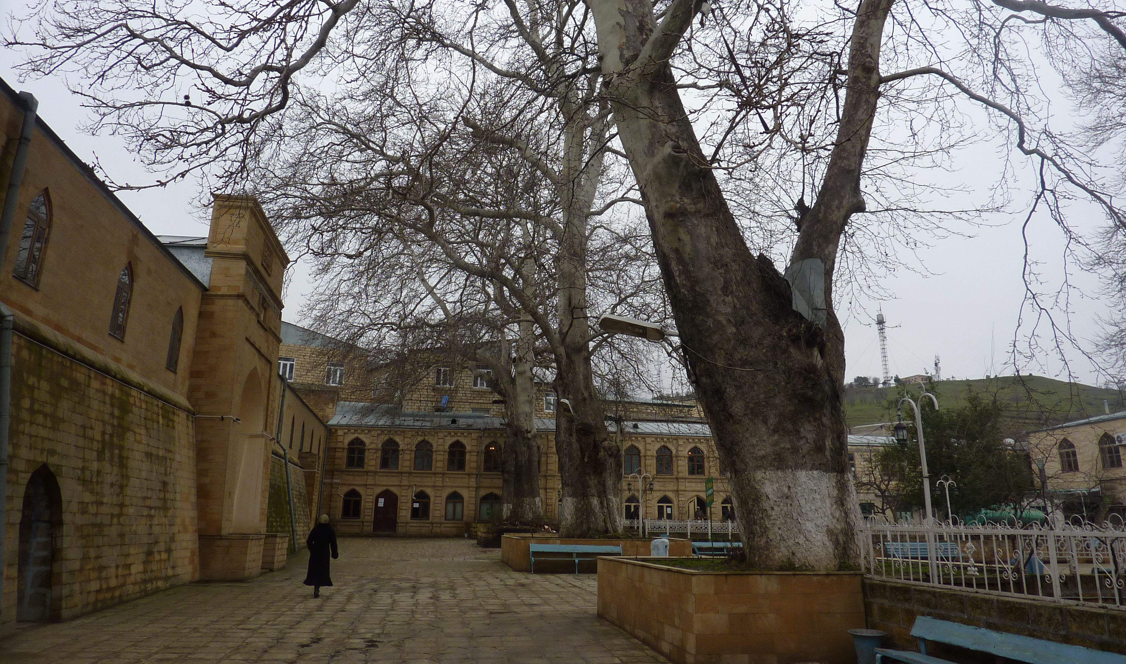 Mosque in Derbent. In the Republic of Dagestan, in the North Caucasus region of southwestern Russia.